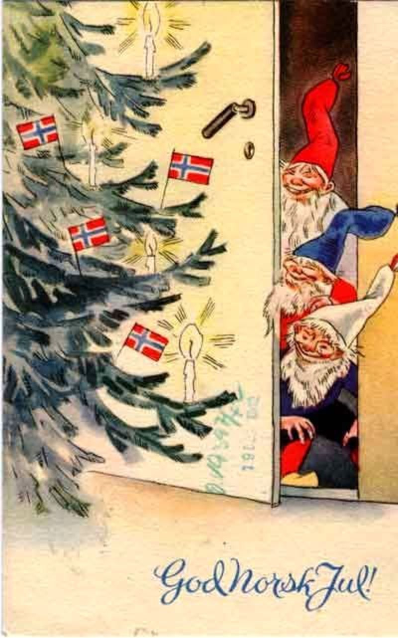 Norwegian Christmas card